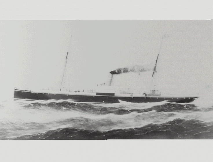 Ship Bega of the Illawarra Steam Navigation Company